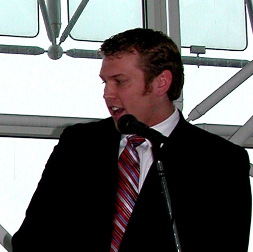 Athlete Christopher Nowinski. Source page: Author: Sgt. 1st Class Doug Sample, USA